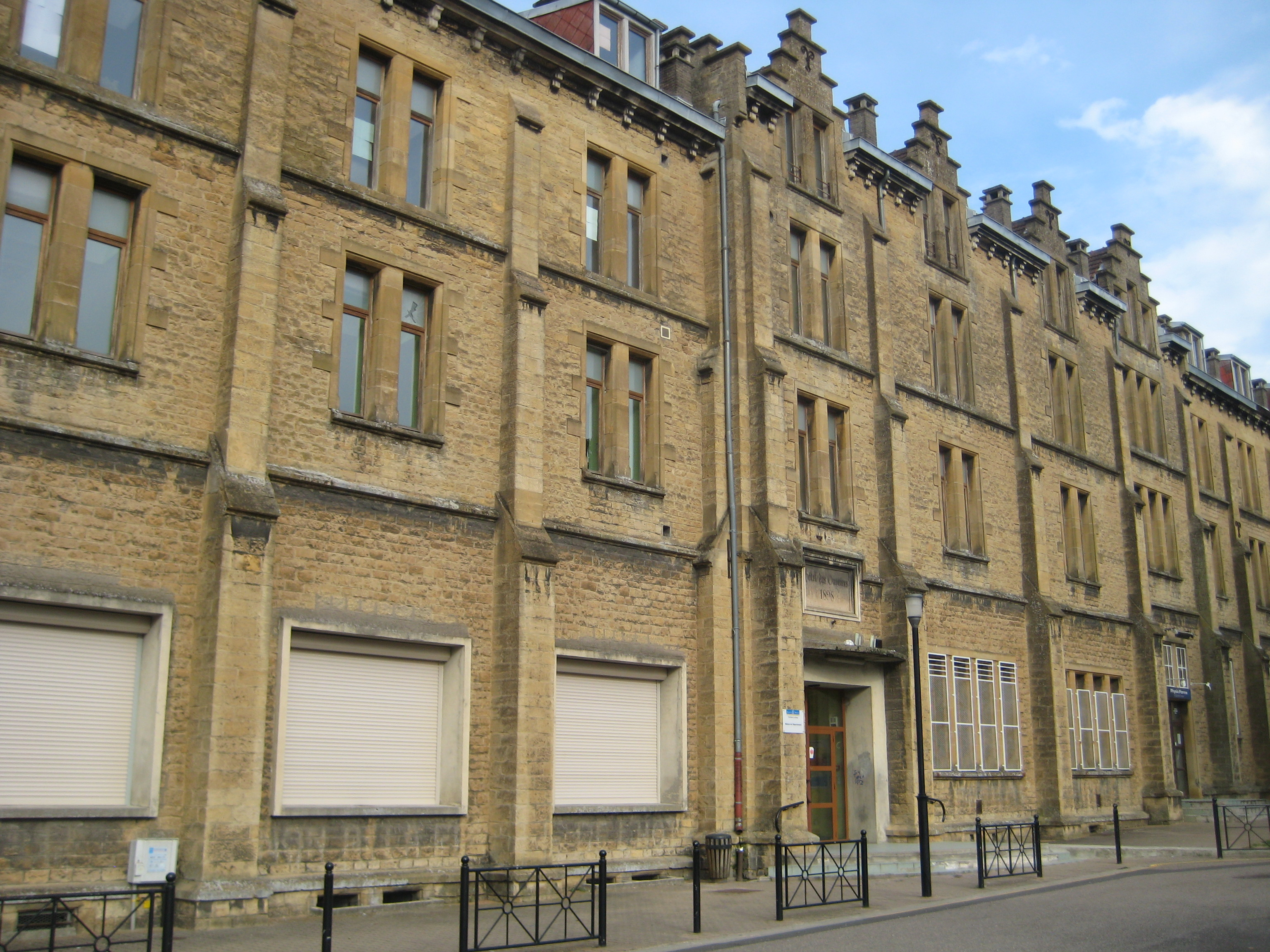 Description hotel ouvrier homecourt Date26 August 2011Sourcemon appareil photoAuthorAimelaimePermission (Reusing this file) hotel ouvrier homecourt